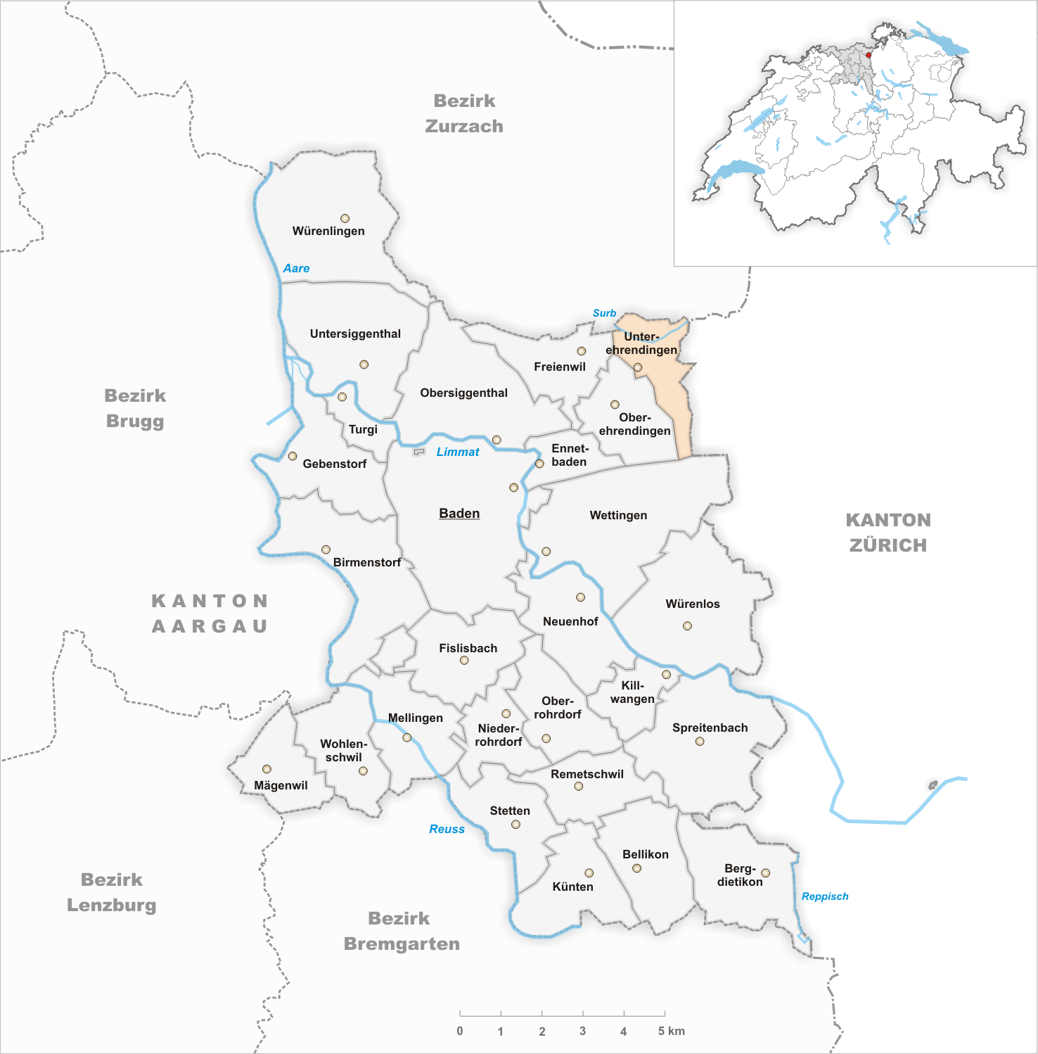 Municipality Unterehrendingen